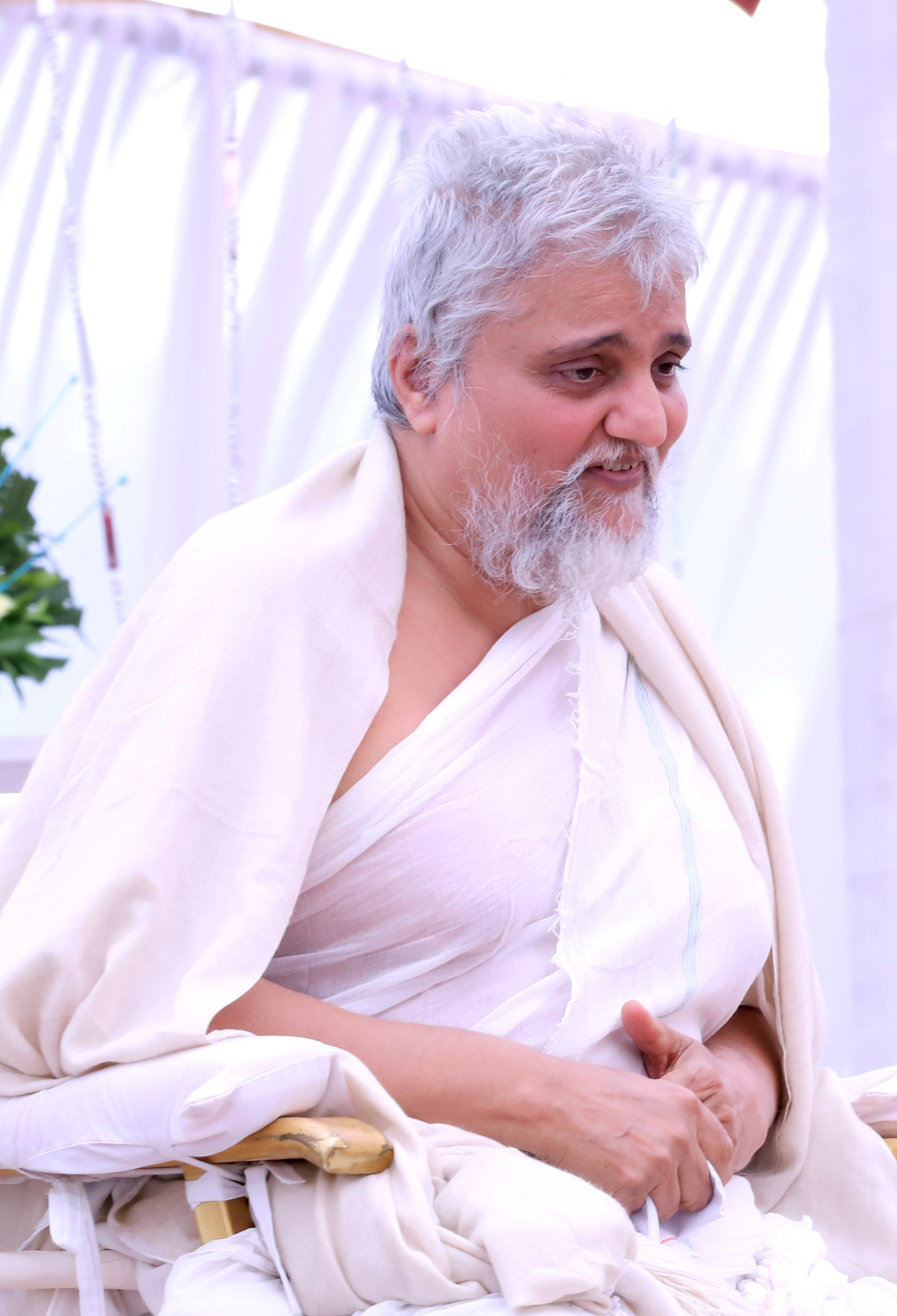 Jainacharya Yugbhushan Suri, Sermons at Khoj , Lonavala